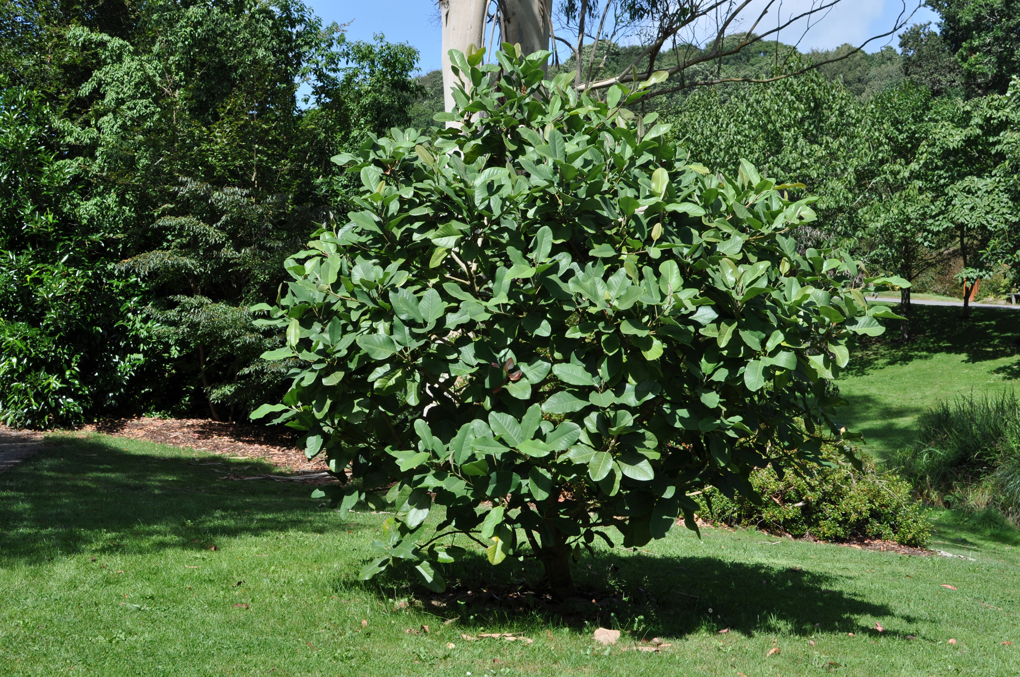 Magnolia delavayi Conservatoire botanique national de Brest Native nameConservatoire botanique national de BrestLocationBrest, FranceCoordinates48° 24′ 10.35″ N, 4° 26′ 53.58″ W Established1975: established, 1978: opened to publicWeb page control : Q2994486 ISNI: 0000 0000 9261 8684 LCCN: no95047958 WorldCat institution QS:P195,Q2994486